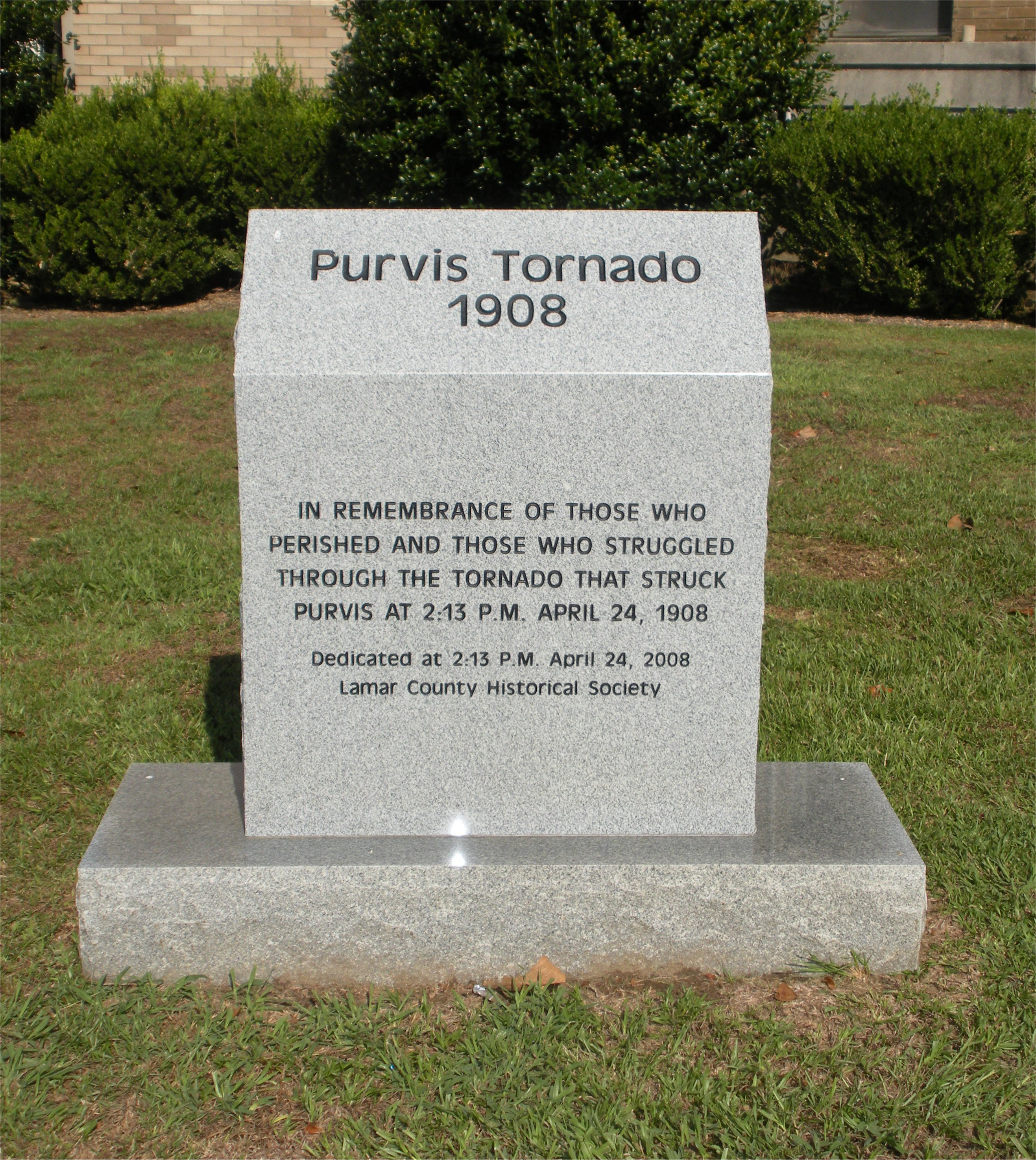 Front of Tornado marker placed in 2008 for centennial of Tornado. Located on Lamar County Courthouse grounds